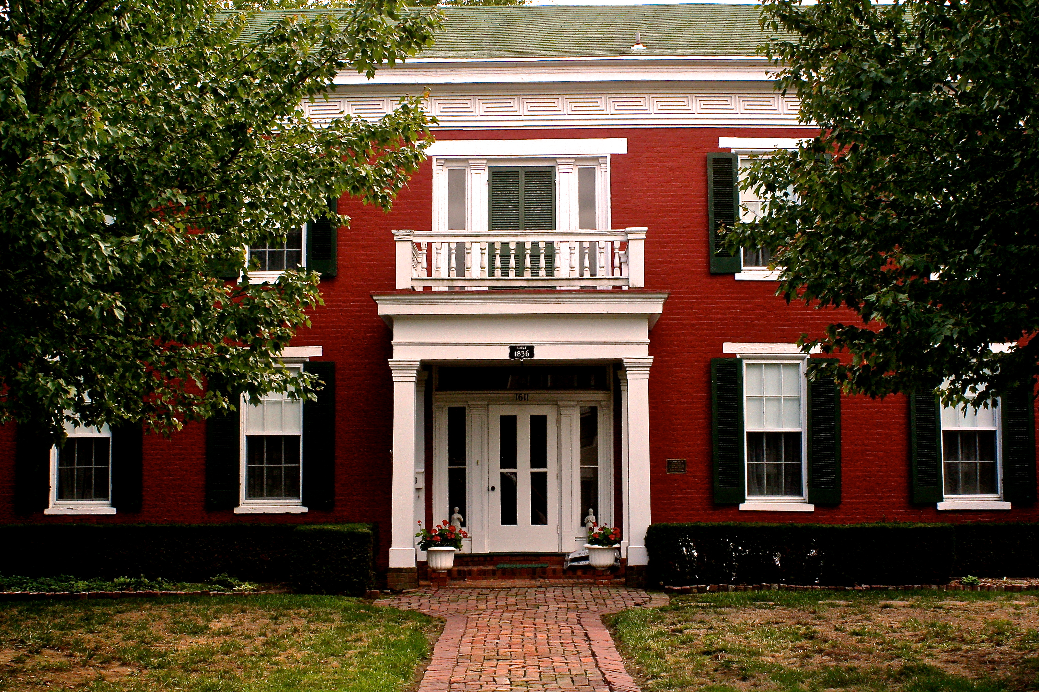 Worthington (Shea) Manor, South Street, Lexington, MO. This home was constructed in 1836.